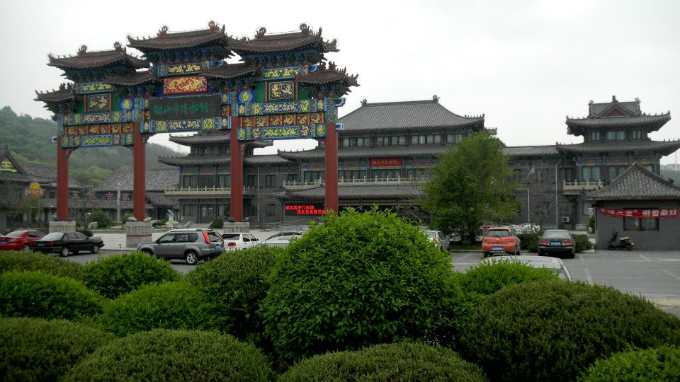 The Anshan City Museum contains exhibits of precious jade and other displays related to the Anshan area of Liaoning Province in China